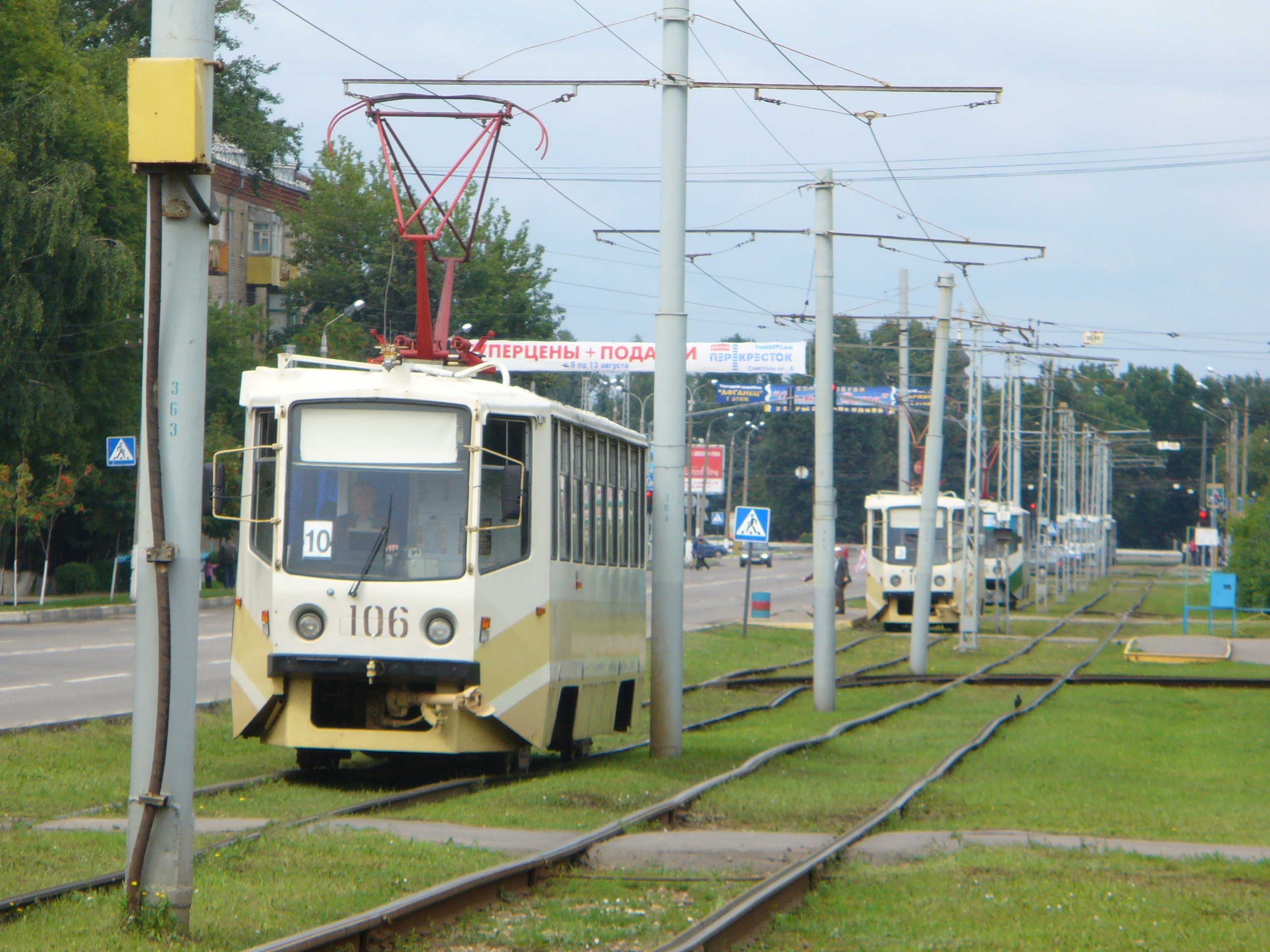 Tramway in Kolomna, Kirova avenue. Tramcar 71-608КМ №106